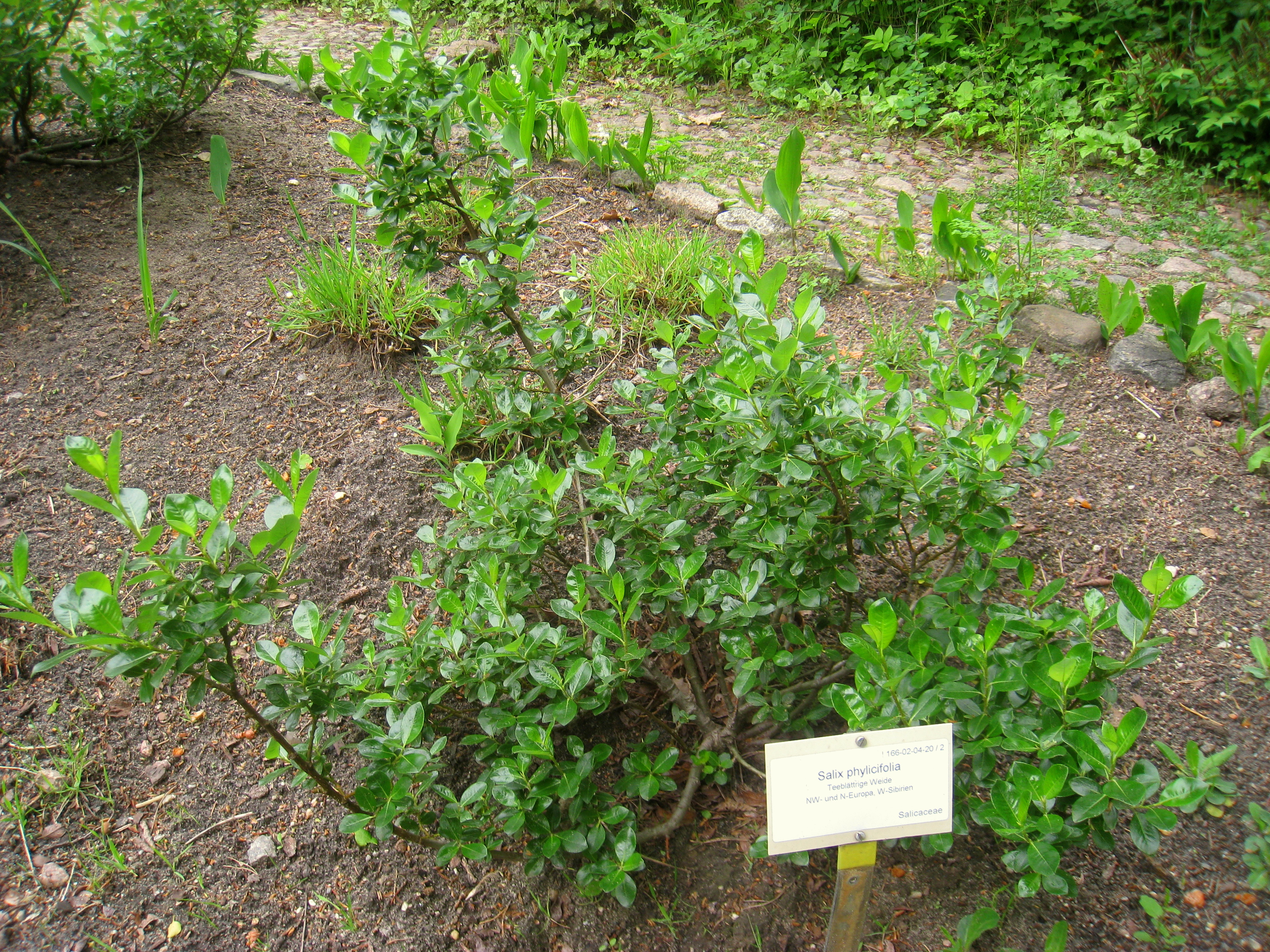 Salix phylicifolia specimen, in the Botanischer Garten, Berlin-Dahlem (Berlin Botanical Garden), Berlin, Germany.